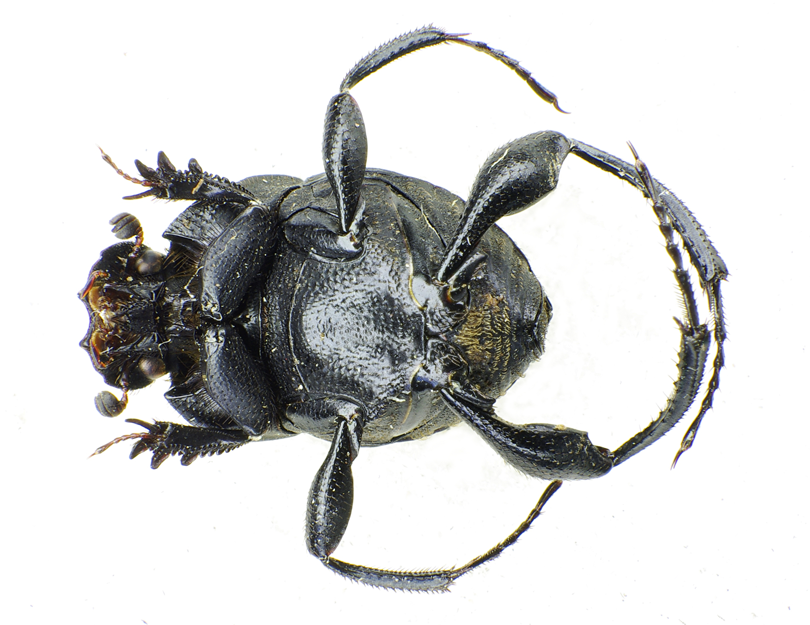 Sisyphus schaefferi, underside